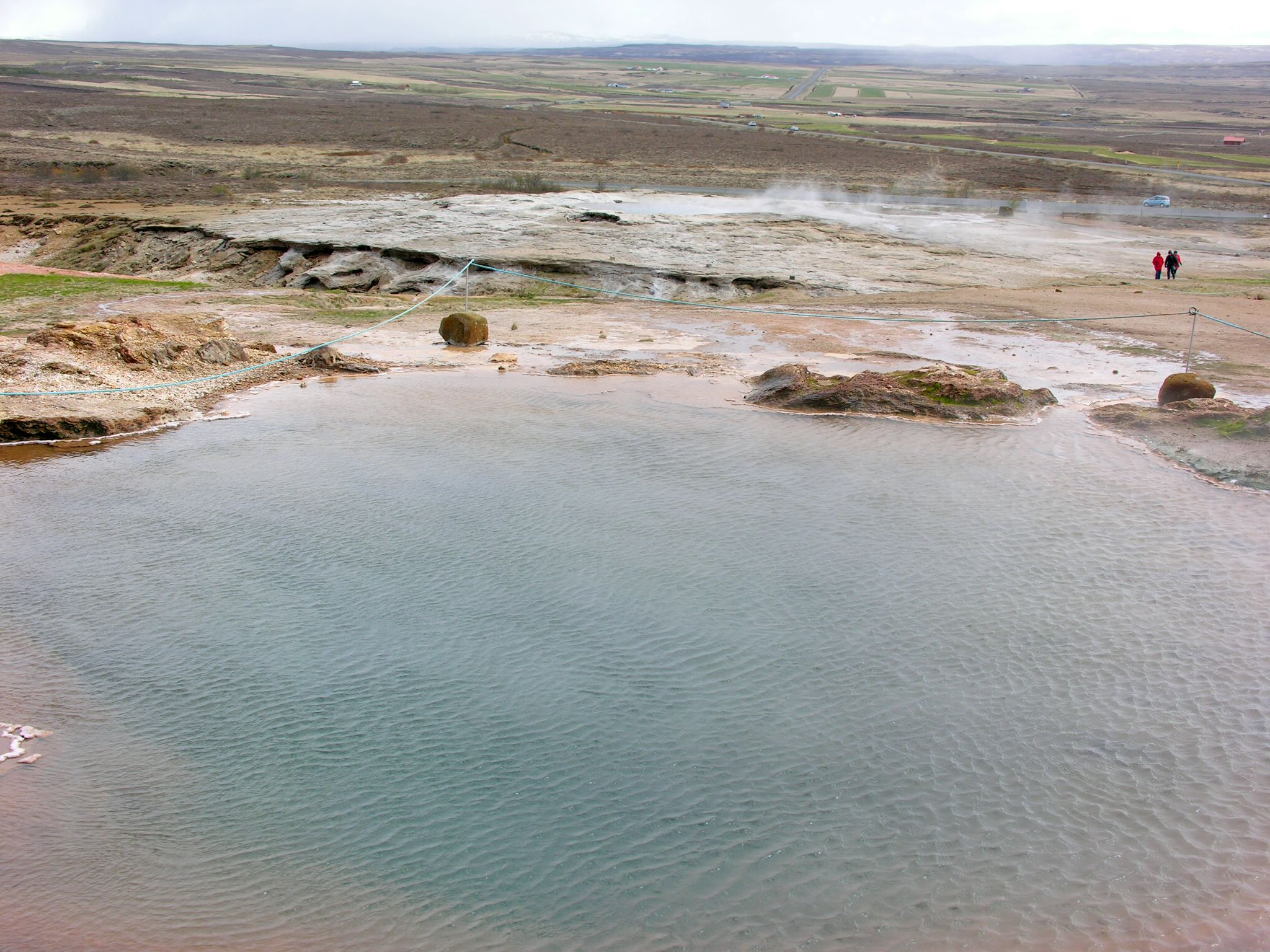 Geysir, Iceland